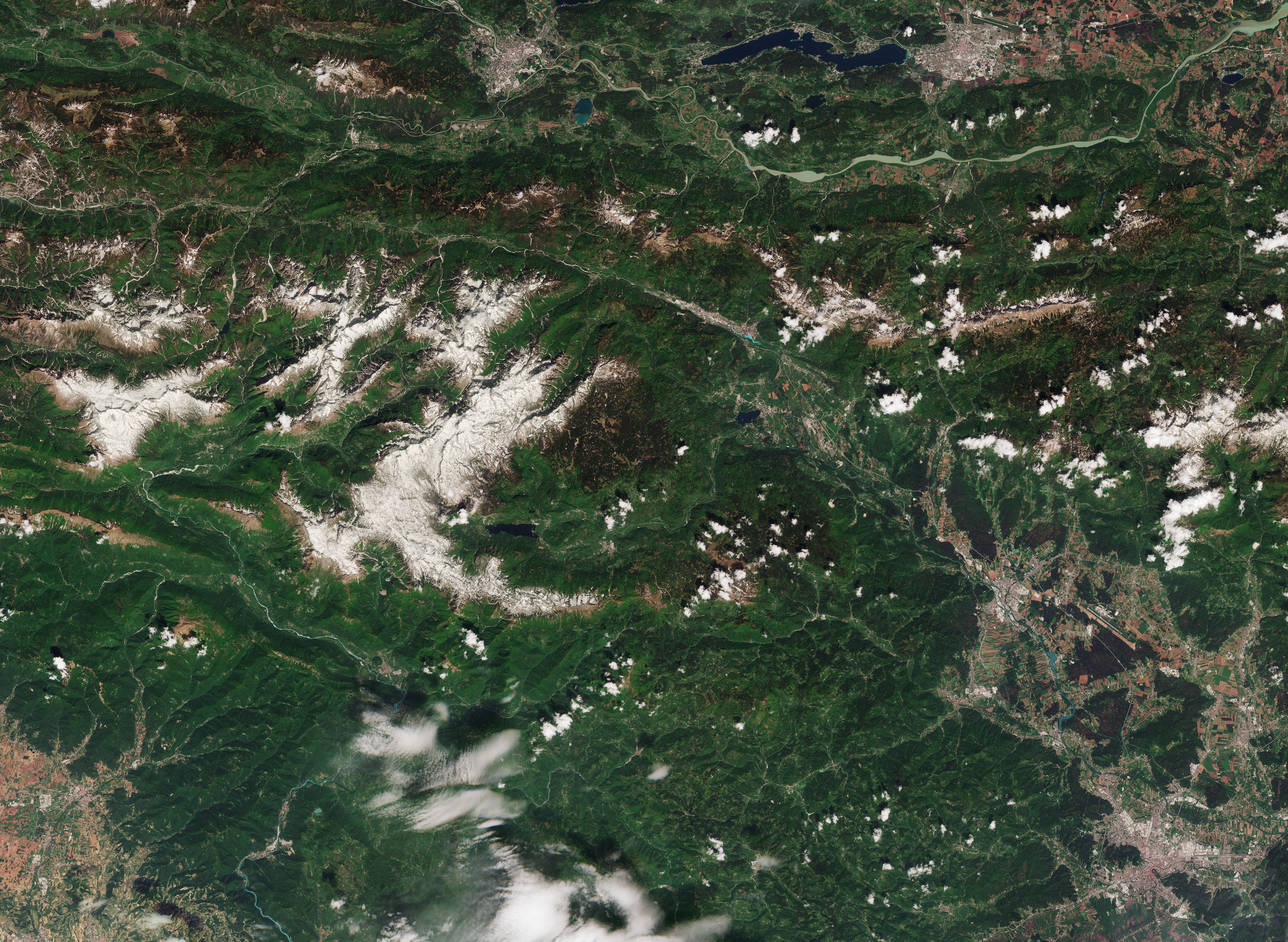 The Copernicus Sentinel-2A satellite takes us over Mount Triglav in Slovenia. At 2800 m above sea level, the mountain is the highest in the country and a significant source of national pride, even featuring on the Slovenian coat of arms. Milan Kucan, the former president, famously once said that it was the duty of every countryman and woman to scale the mountain at least once in their lives. The snow-peaked mountain is visible in the centre of the image, flanked by the popular tourist resort of Bled to the west. This small town is a popular base for skiers in the winter and for water-sport enthusiasts in the summer who make the most of the alpine lake of the same name. In the lower-right part of this true-colour image, we see the capital of Slovenia, Ljubljana, home to just under 300 000 people and the cultural, administrative and economic centre of the country. Famous for its environmental credentials, the city was named European Green Capital in 2016. This is thanks to shifting the focus from car transport to public transport, by pedestrianising areas of the city and by taking concerted efforts to preserve and protect green areas. Slovenia is bordered by Austria, Italy, Croatia and Hungary. On the top-right of the image we can see Klagenfurt, the capital city of the southern Austrian province of Carinthia, located by Lake Wörthersee. Sometimes referred to as the Caribbean of the Alps, the Lake area is where the famous Austrian composer, Gustav Mahler, wrote some of his best-known symphonies. Sentinel-2 data can be used to monitor agriculture, biodiversity, and coastal and inland waters, helping to supply the coverage and data delivery needed for Europe’s Copernicus environmental monitoring programme.